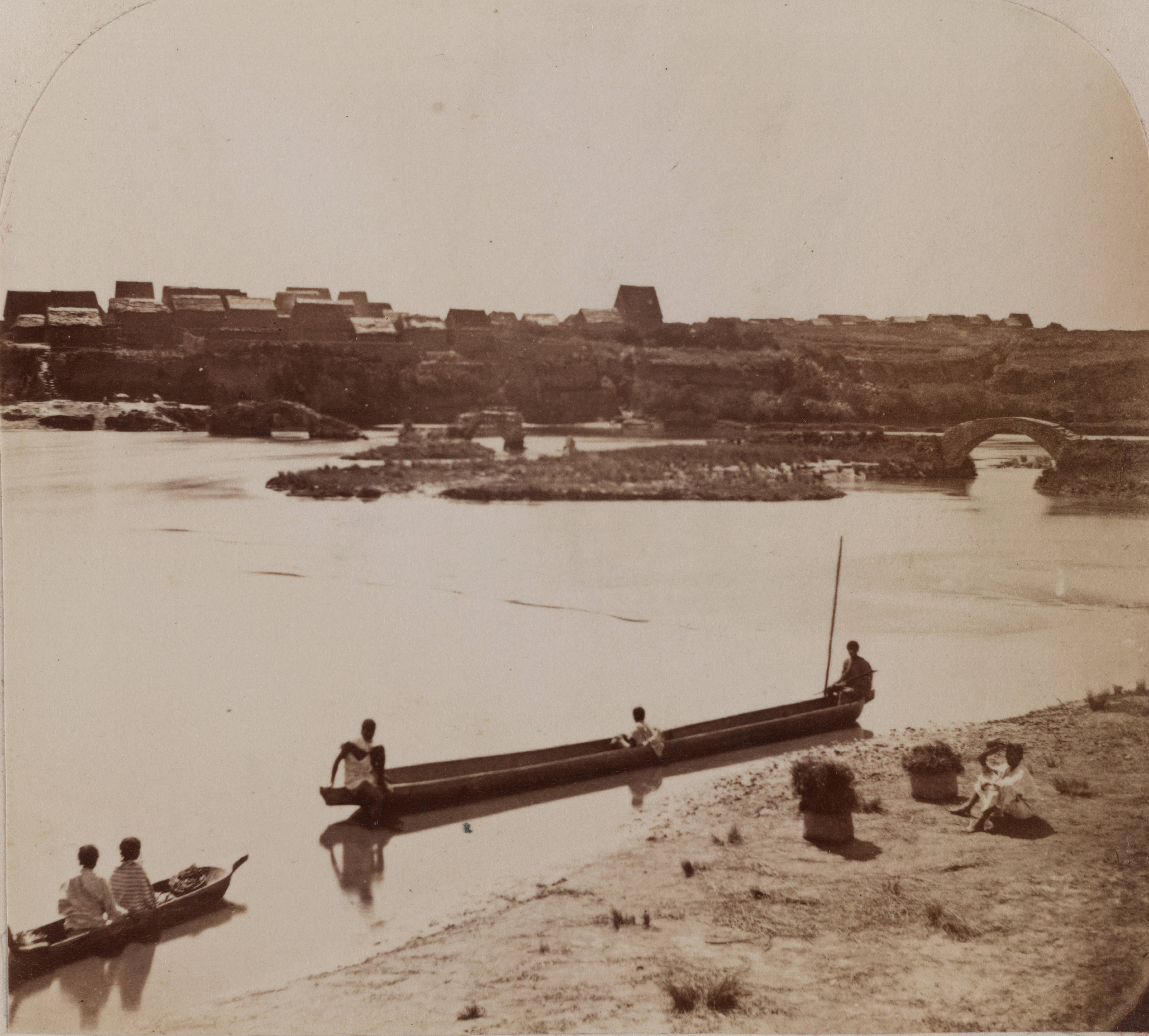 Canoes on the Ikopa River, 1865, Antananarivo, Madagascar